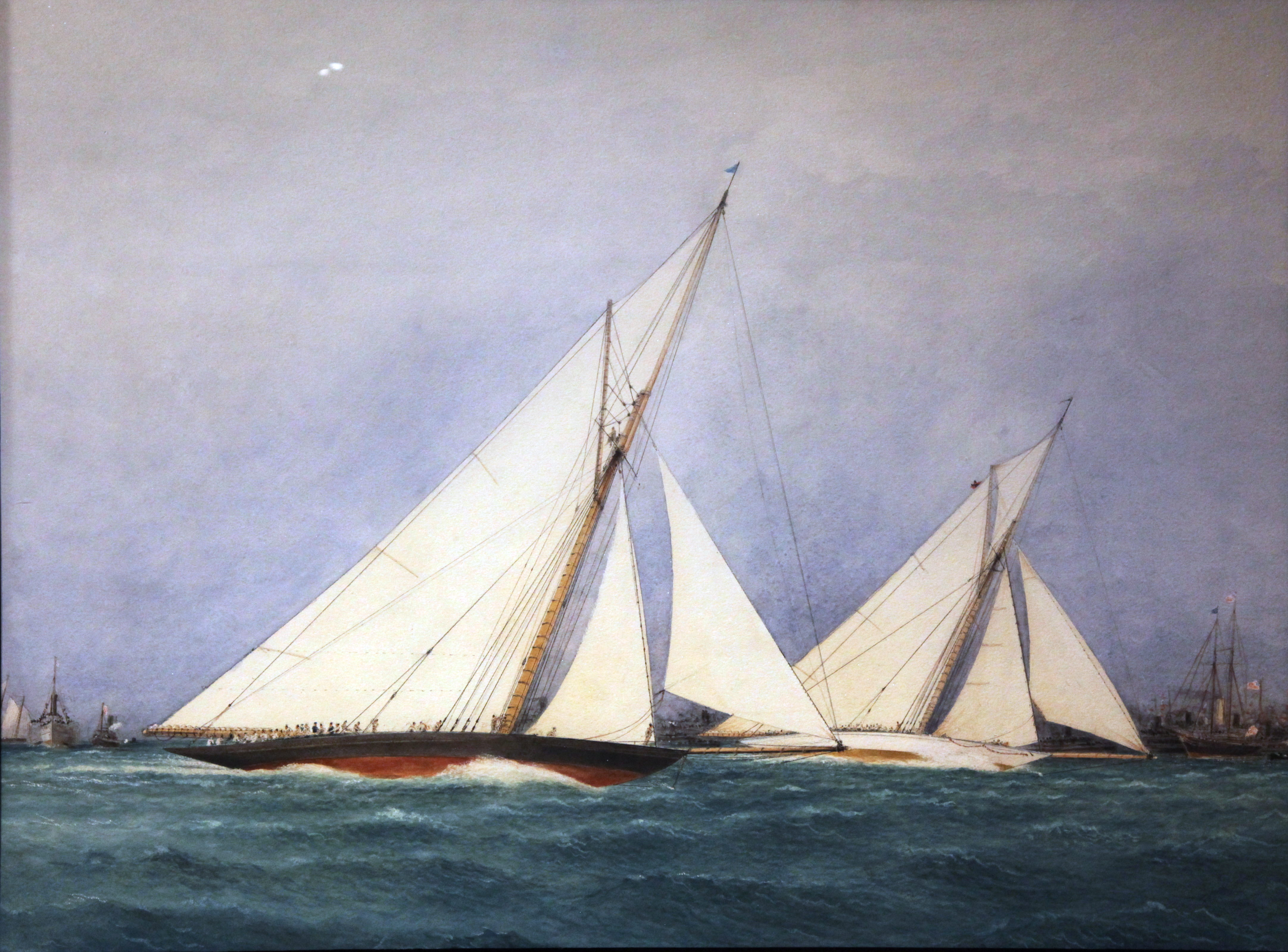 America's Cup Racing, 1893: Vigilant (defender) racing against Valkirie (foregound). Vigilant won the race. On loan from Dr. William I. Koch.